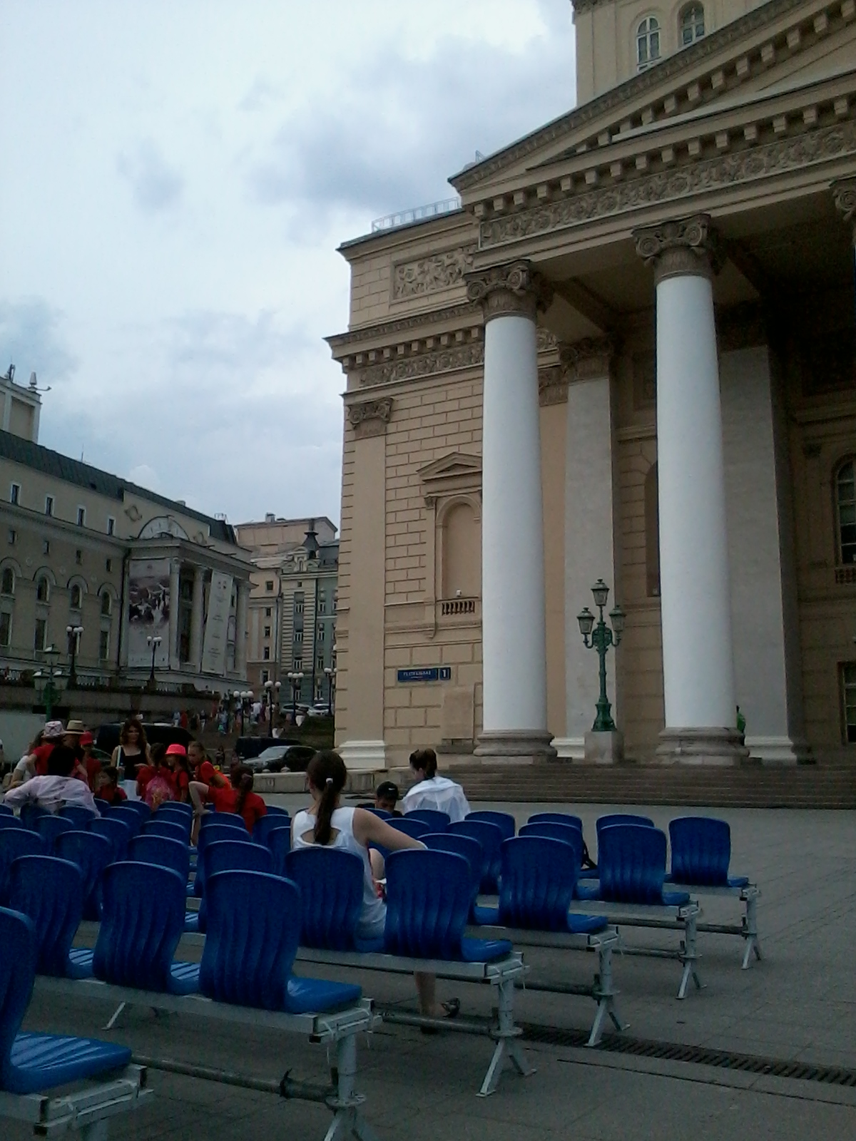 The seats near the Bolshoi Theatre where the screen for live broadcasting was installed. An entry to this place is free of charge